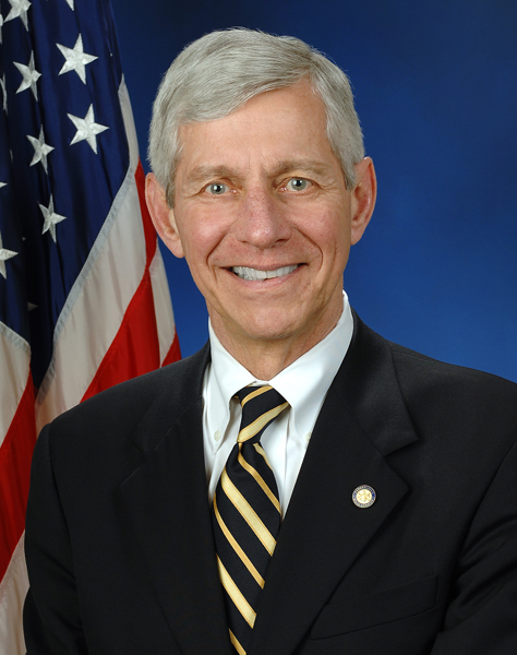 Portrait of Pennsylvania State Senator Edwin Erickson.